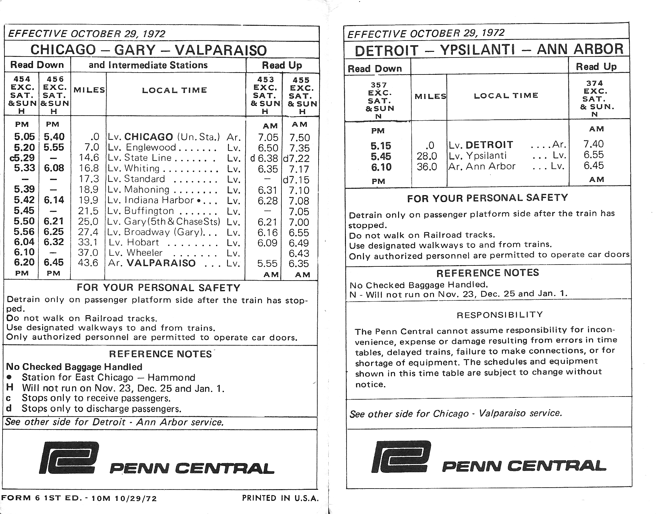 Penn Central Railroad Passenger Timetable (Form 6) eff. 1972-10-29 showing the Valparaiso local service on one side, the Detroit-Ann Arbor service on the other.